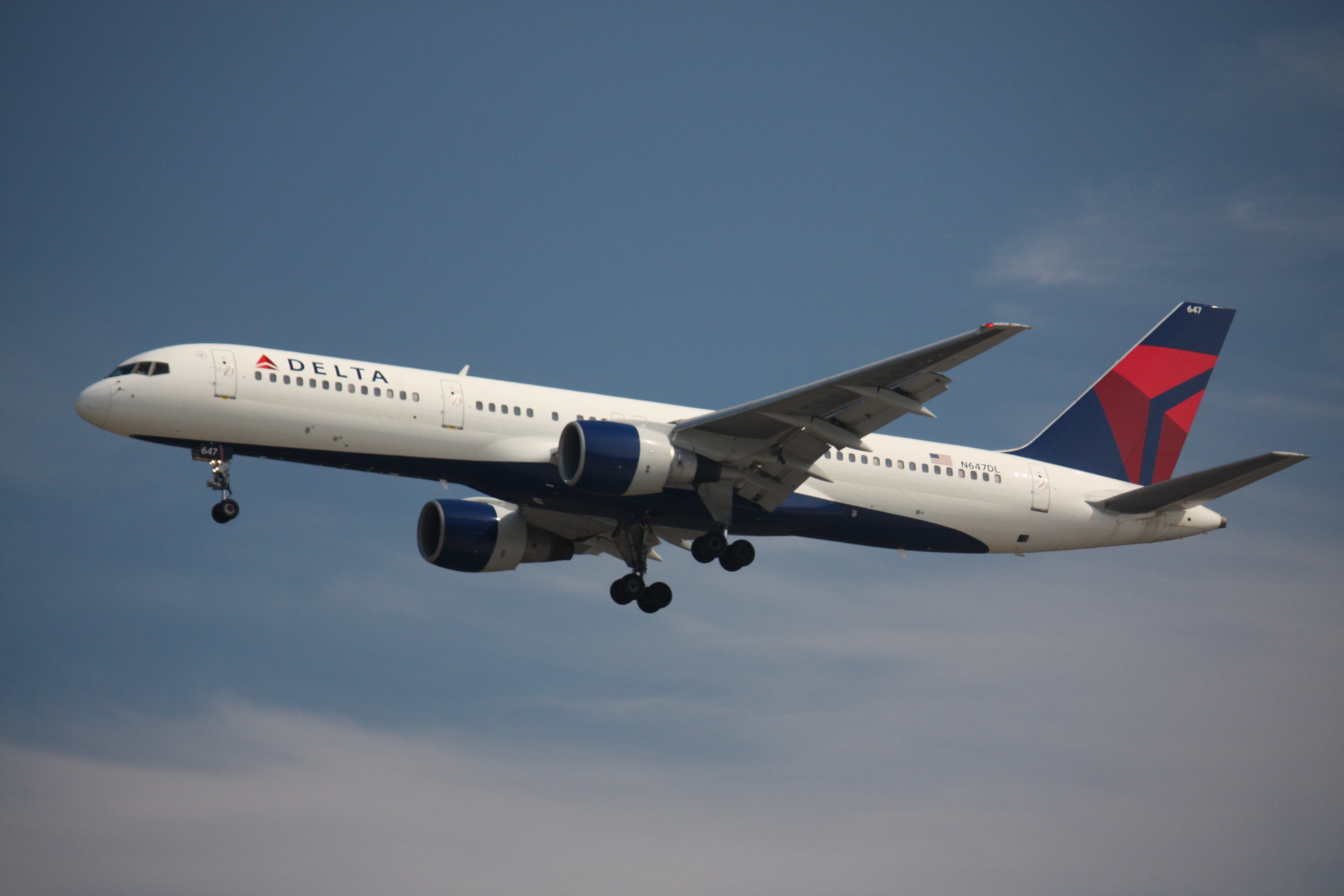 A Delta Air Lines Boeing 757-232 landing at Vancouver International Airport